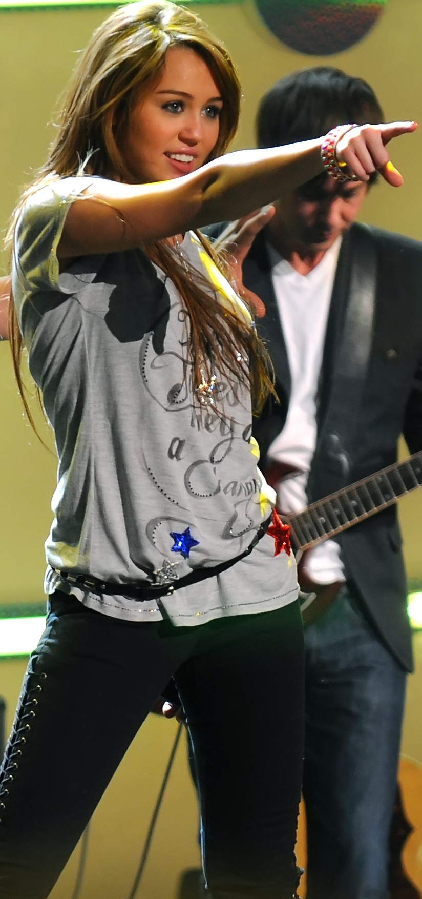 Miley Cyrus performs at the “Kids Inaugural: We Are the Future” concert at the Verizon Center in downtown Washington, D.C., Jan. 19, 2009.